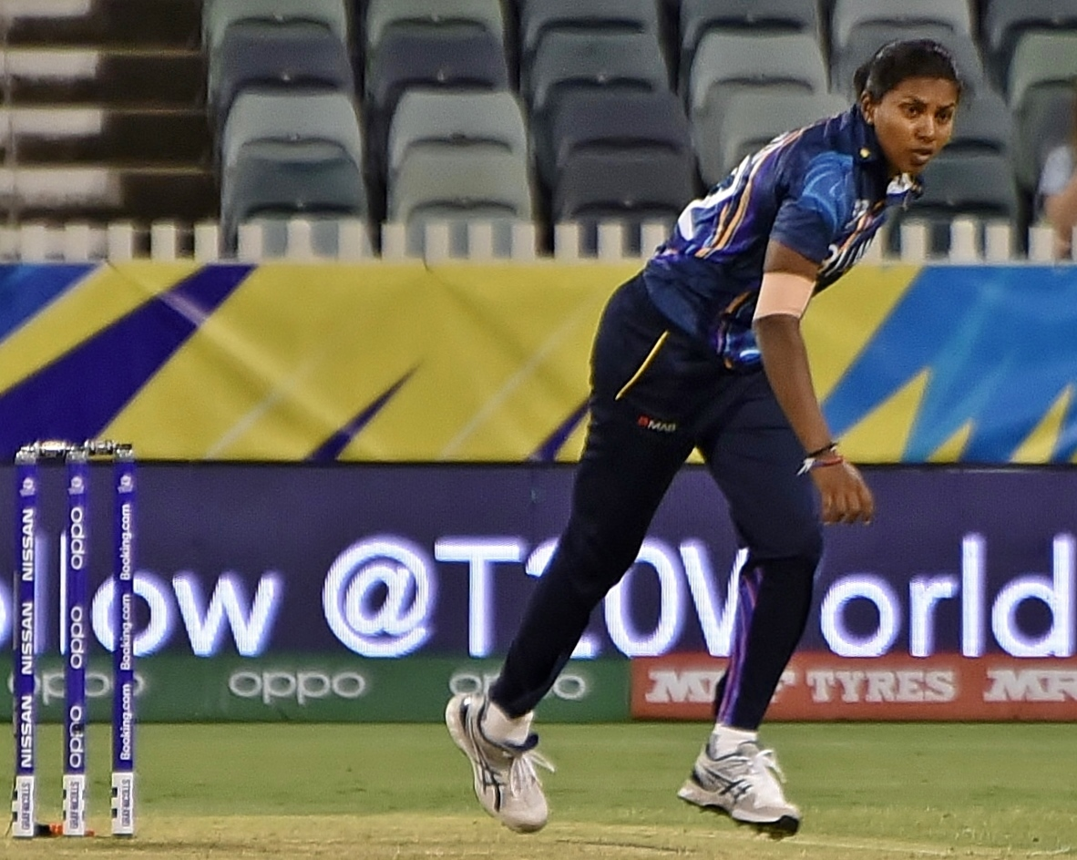 Achini Kulasuriya bowling for Sri Lanka against New Zealand during their 2020 ICC Women's T20 World Cup match at the WACA Ground in Perth, Australia